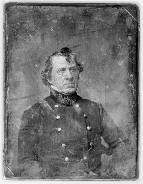 Photograph of American military officer William Gates (soldier)